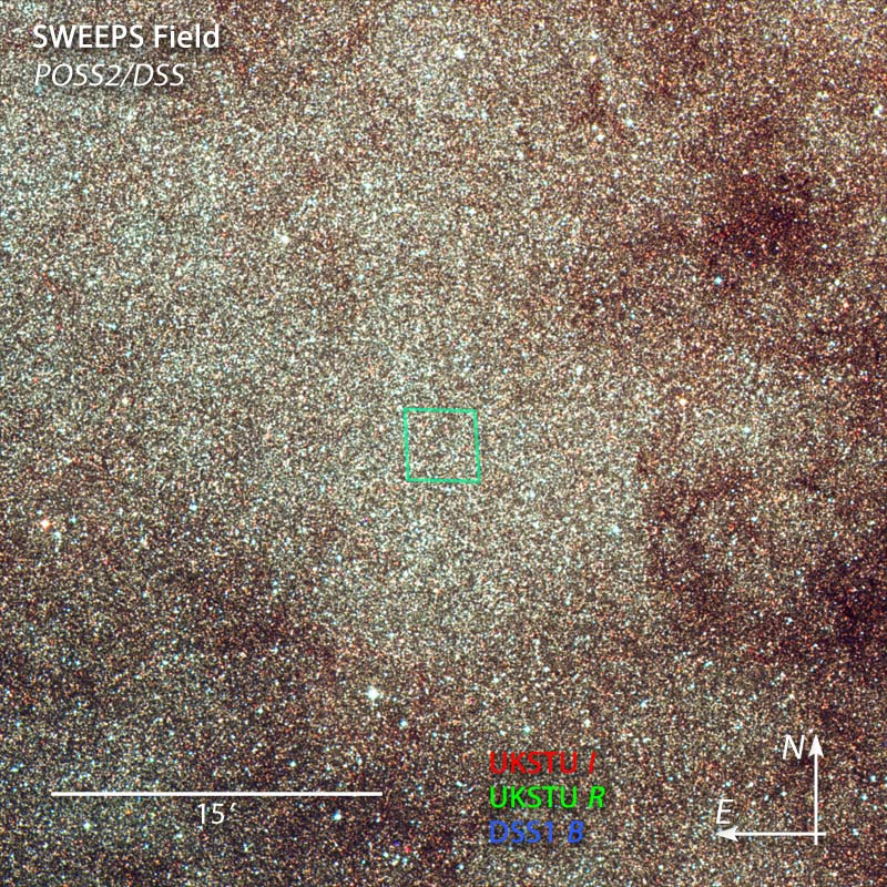 Detail of the Hubble Space Telescope SWEEPS search area in the Sagittarius constellation showing the Milky Way galaxy's numerous central bulge stars. The SWEEPS search area is shown in blue.